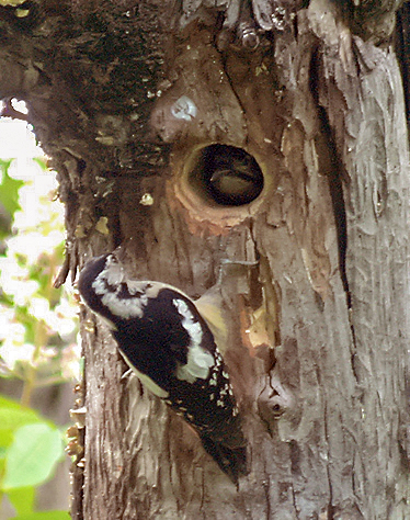 Himalayan Woodpecker (Dendrocopos himalayensis) in Kullu District of Himachal Pradesh, India.